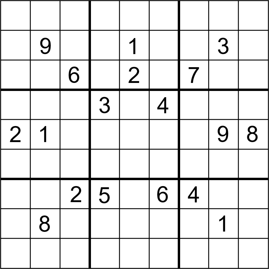 "Raphael" - An 18-clue Sudoku with orthogonal symmetry by Rico Alan.